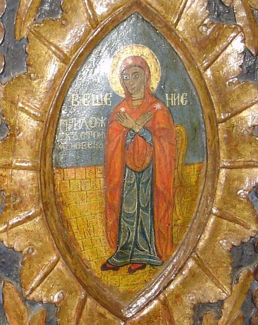 Iconostasis Doors Detail Annunciation Dovezentse Church end 19 century